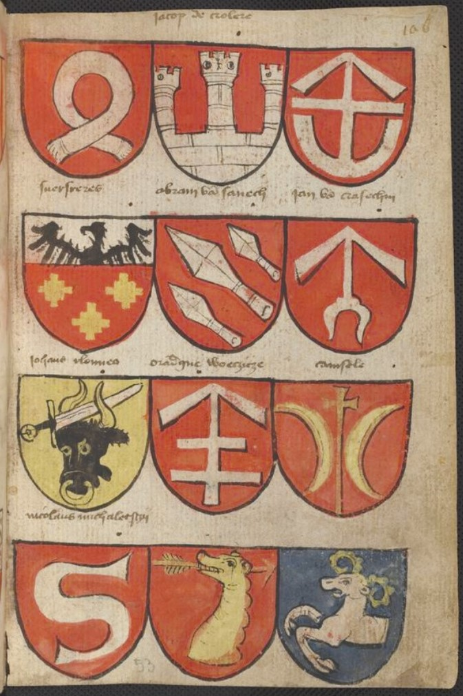 Folio 106 from Armorial Lyncenich